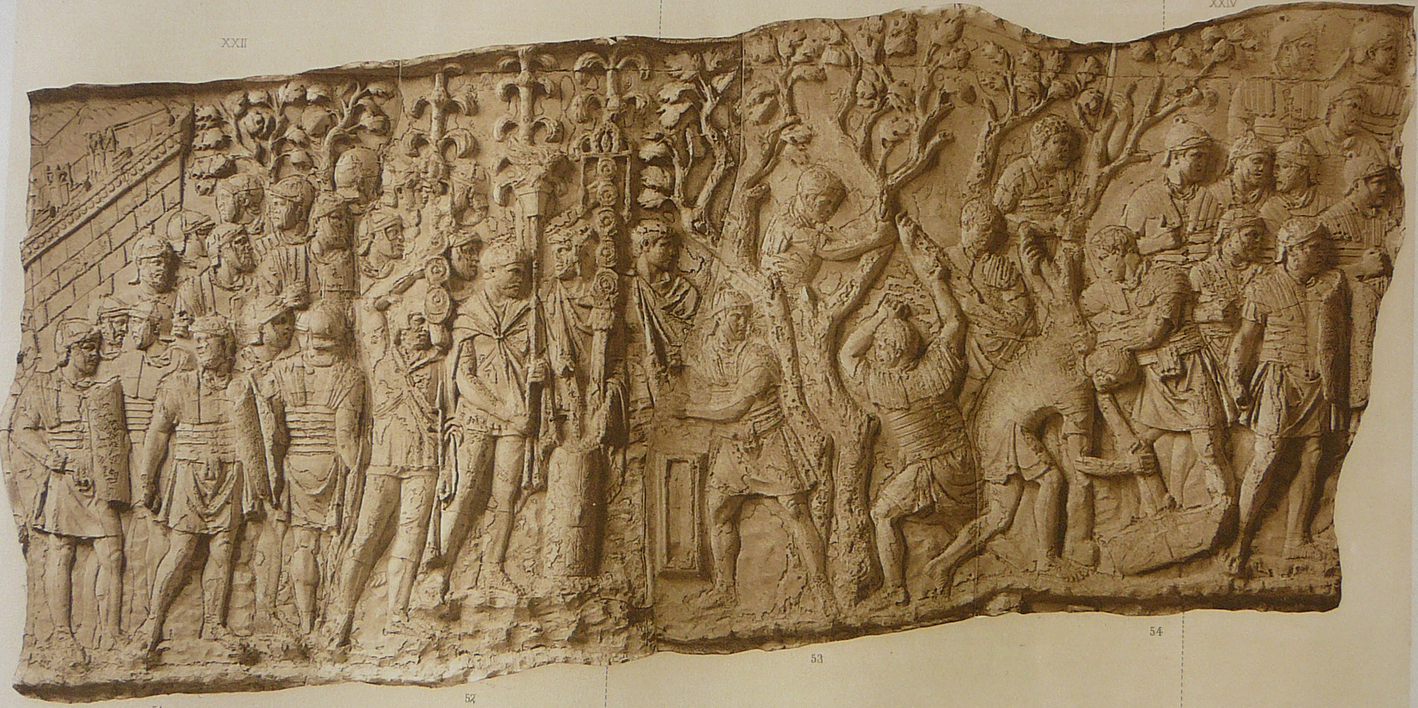 Advance into the forest (scene XXII); making a road through the forest (scene XXIII); the first battle (scene XXIV)